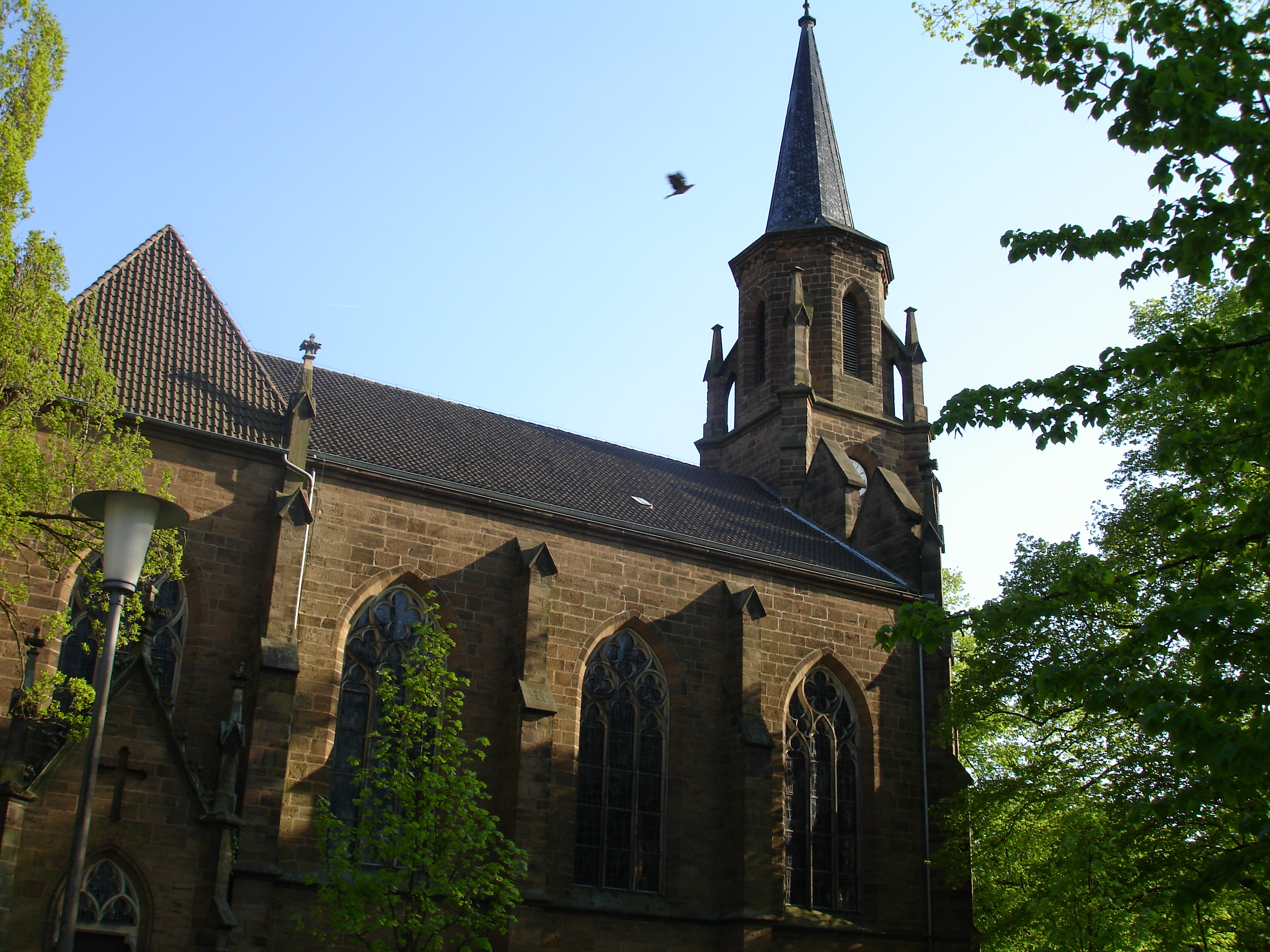 St.Paul church in town of Bünde, District of Herford, North Rhine-Westphalia, Germany.